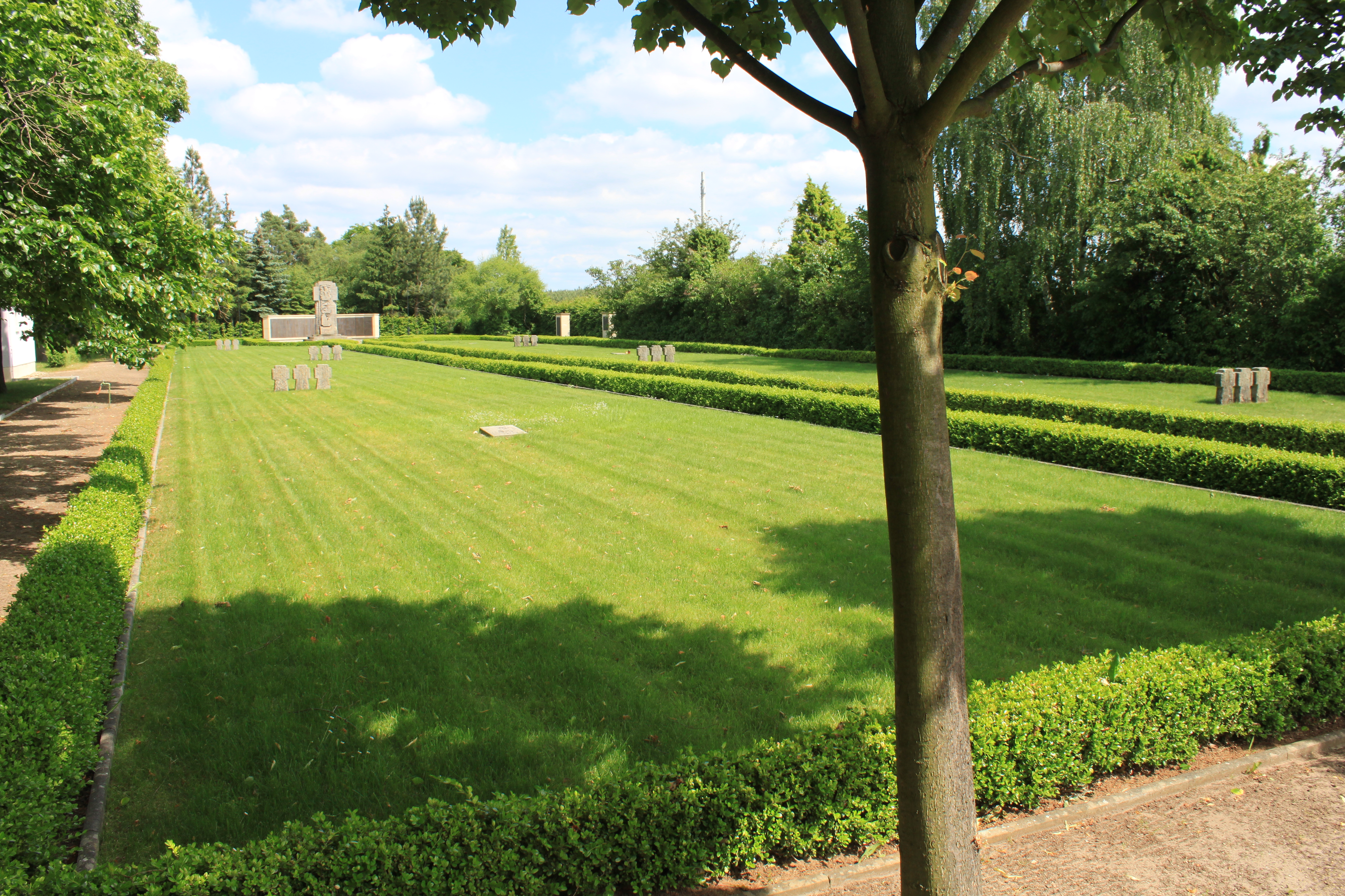 Soldatenfriedhof Neuburxdorf